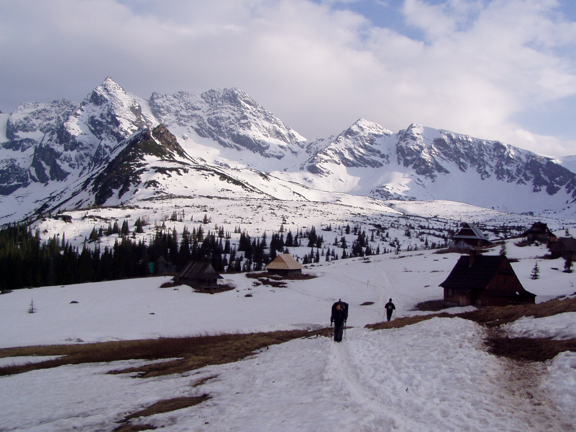 View from Hala Gąsienicowa in Tatra Mountains, Poland. Highest peak on the left is Kościelec.